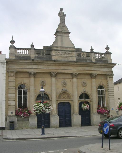 The Corn Exchange